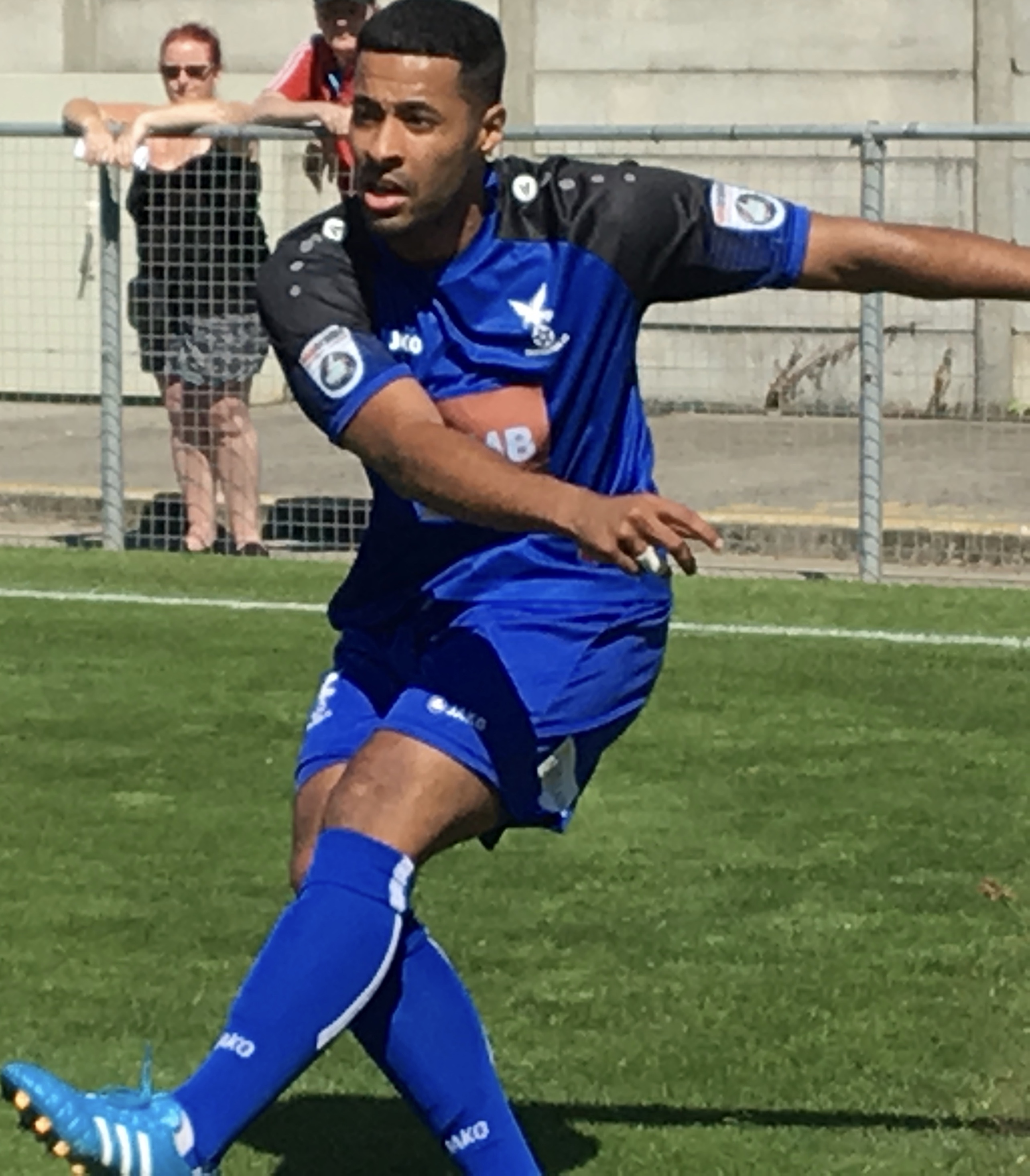 Abdulla playing for Whitehawk at Weston-Super-Mare in 2016